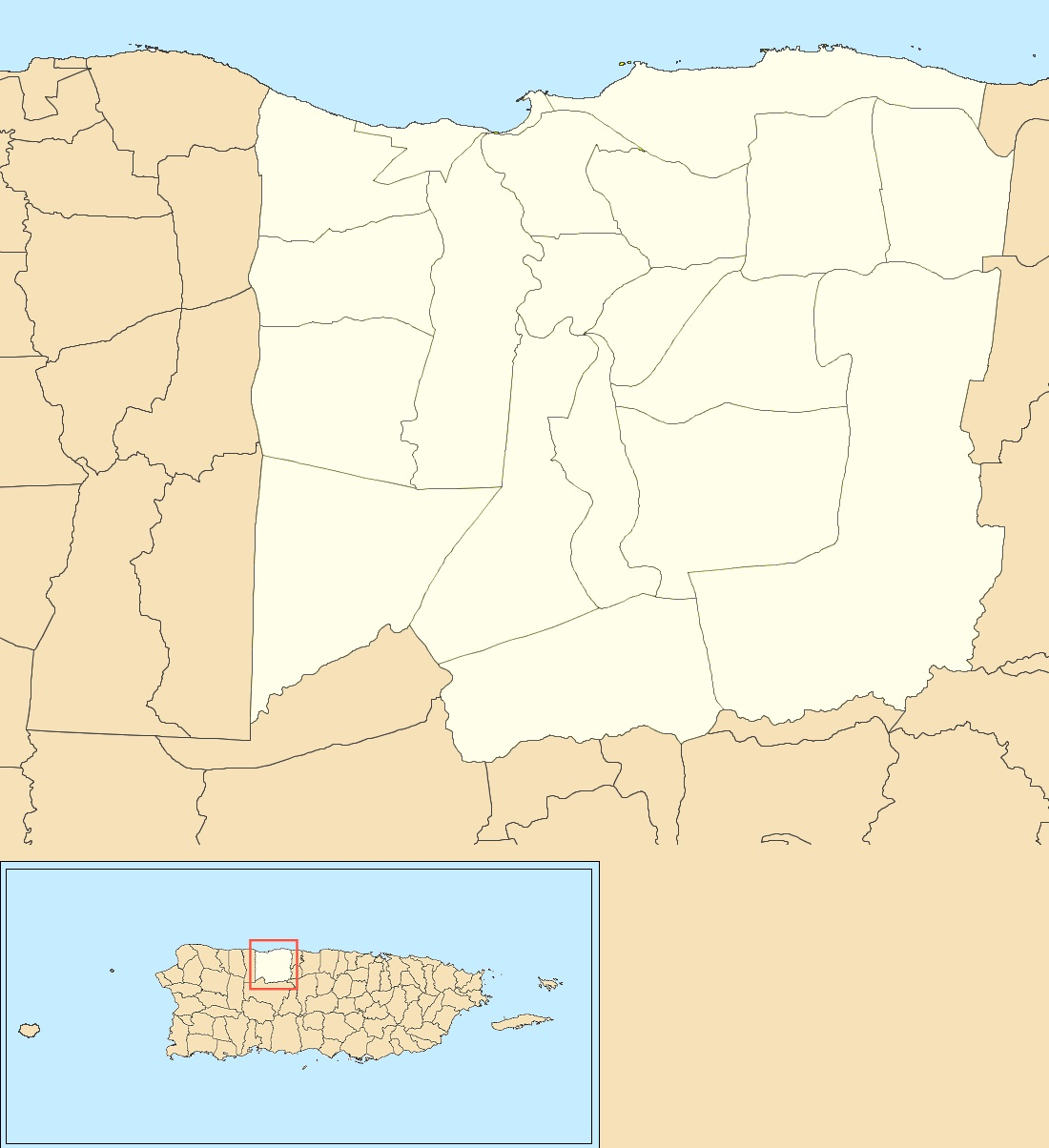 Barrios of Arecibo, Puerto Rico labeled on map